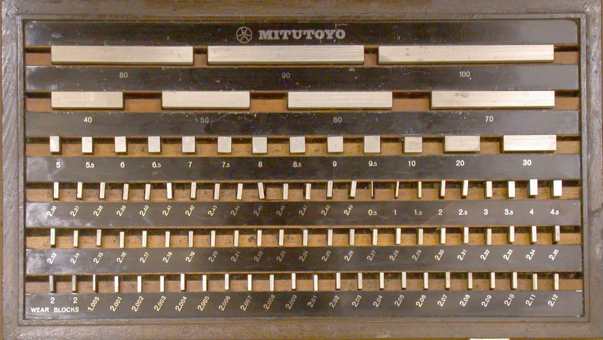 A set of metric gauge blocks. Sizes are listed under each block. eg:- a pair of 2mm thick wear blocks at the lower left corner.